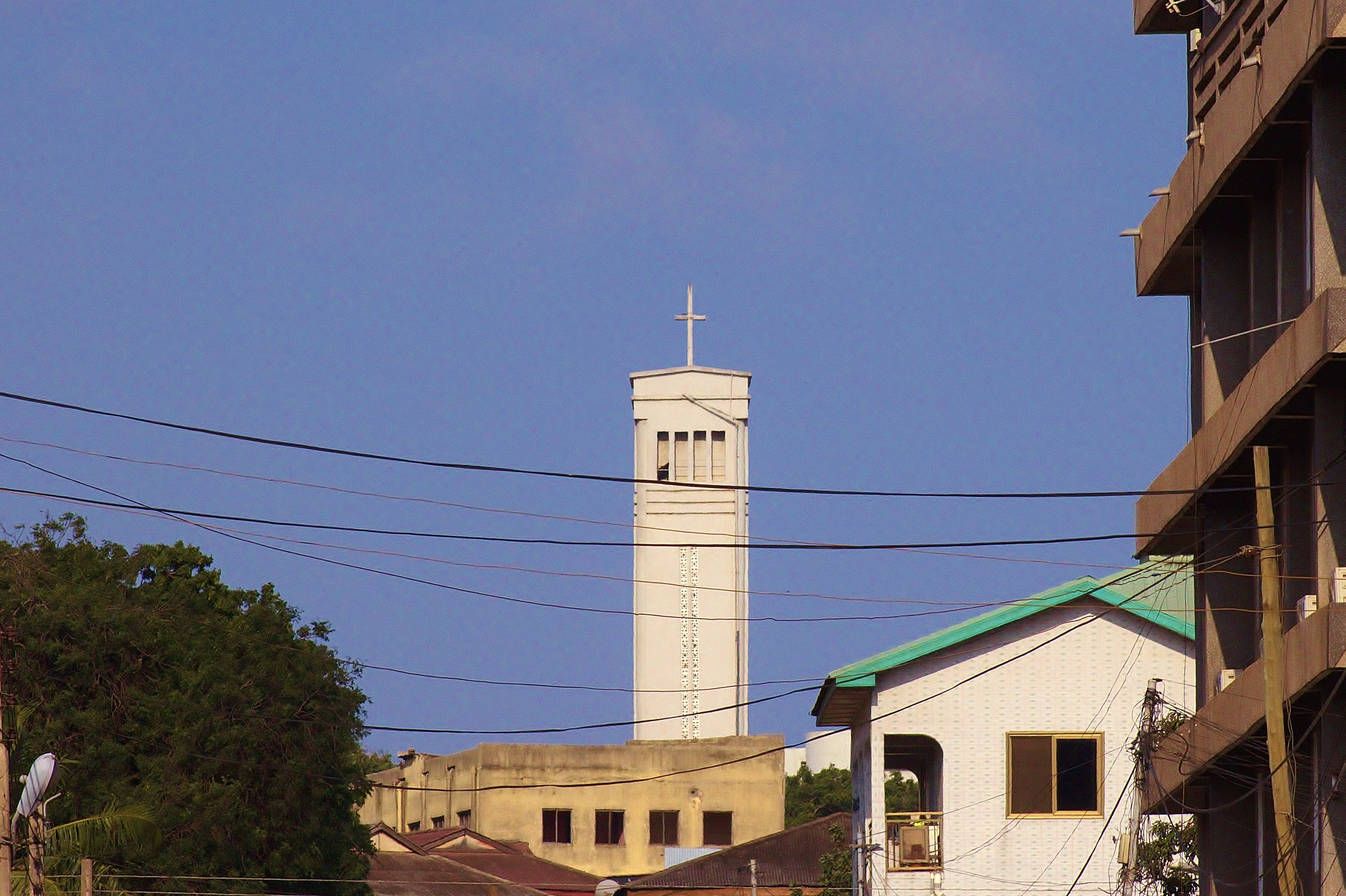 A view Holy Spirit Cathedral Tower from the streets of Adabraka.